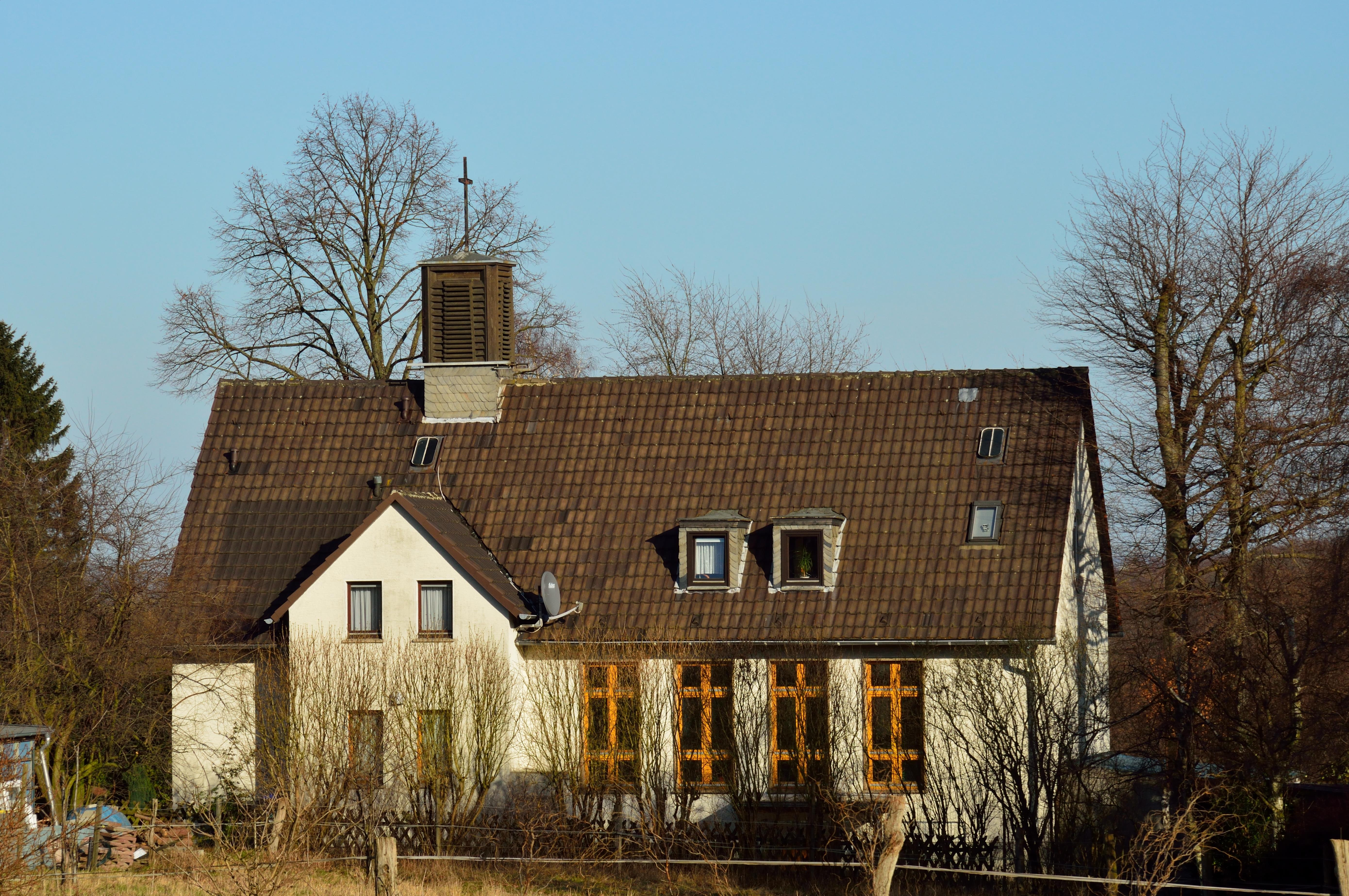 Protestant church Gemeindehaus Schnee in Witten, Germany